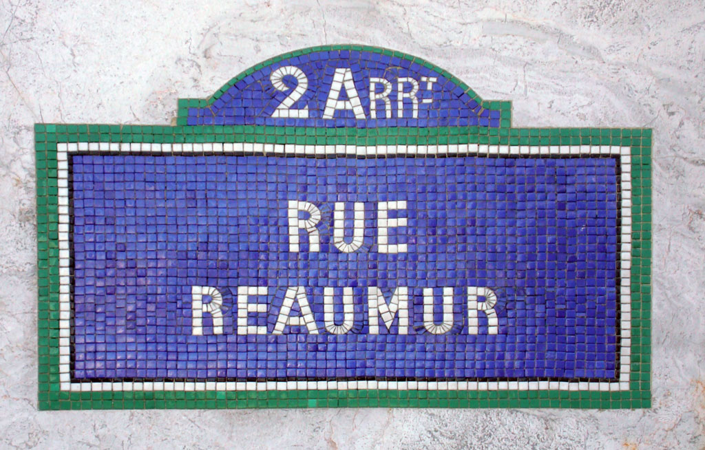 Mosaic displaying the name of Reaumur Street in Paris